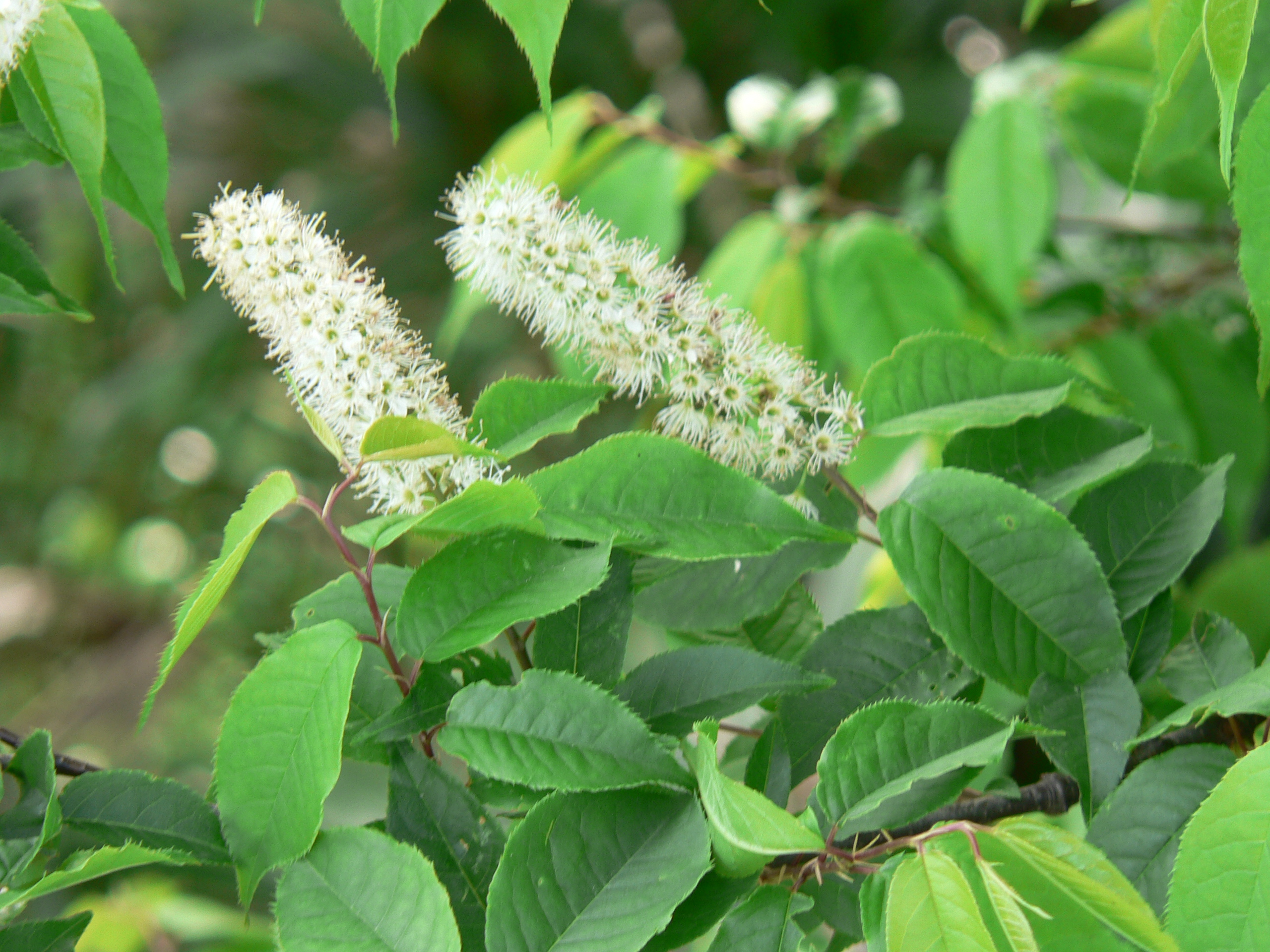 Prunus grayana (syn. Padus grayana) Shot by myself on Apr. 22, 2006.